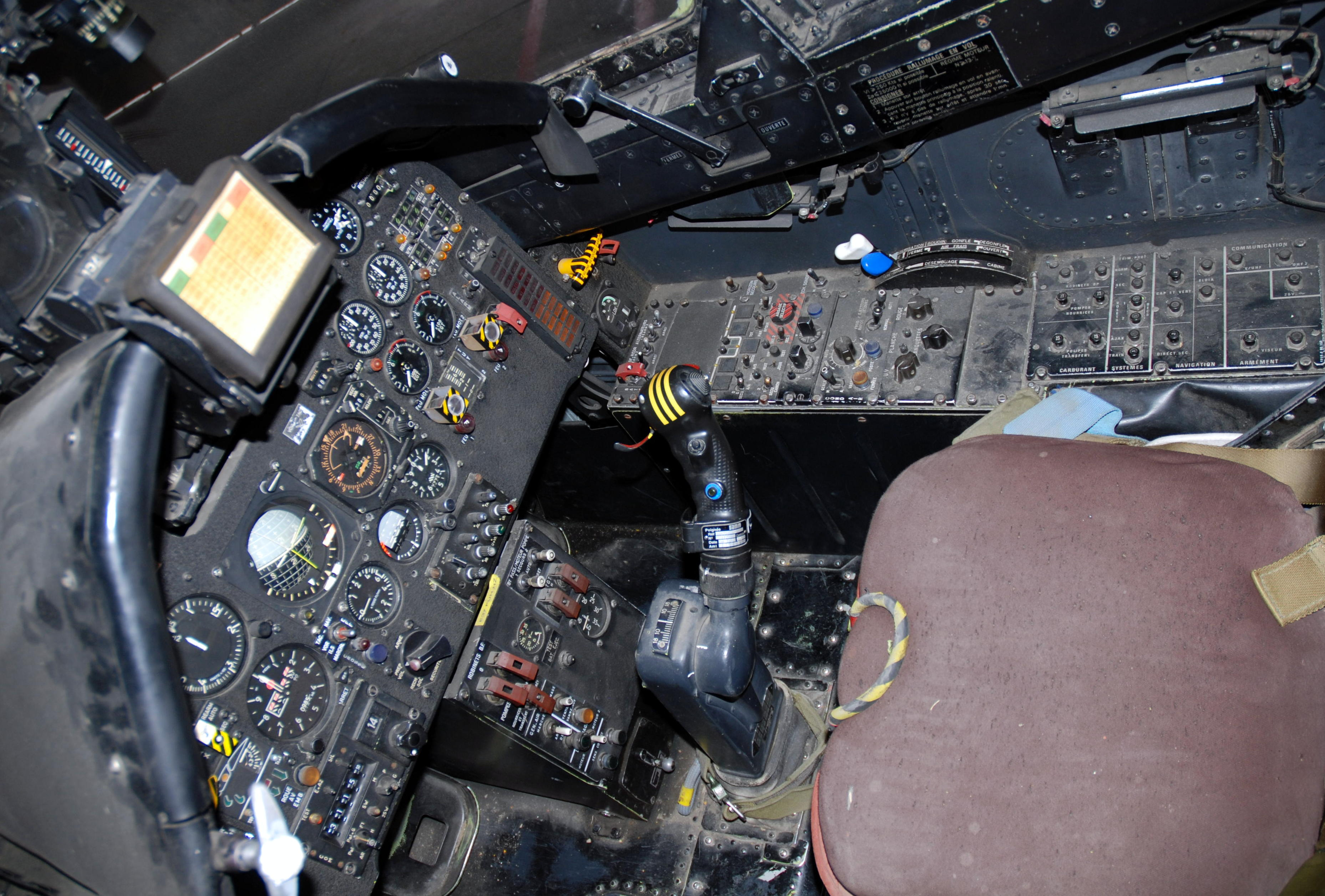 Photo ref; Nikon-D80-2014-DSC_0863 (Edited)